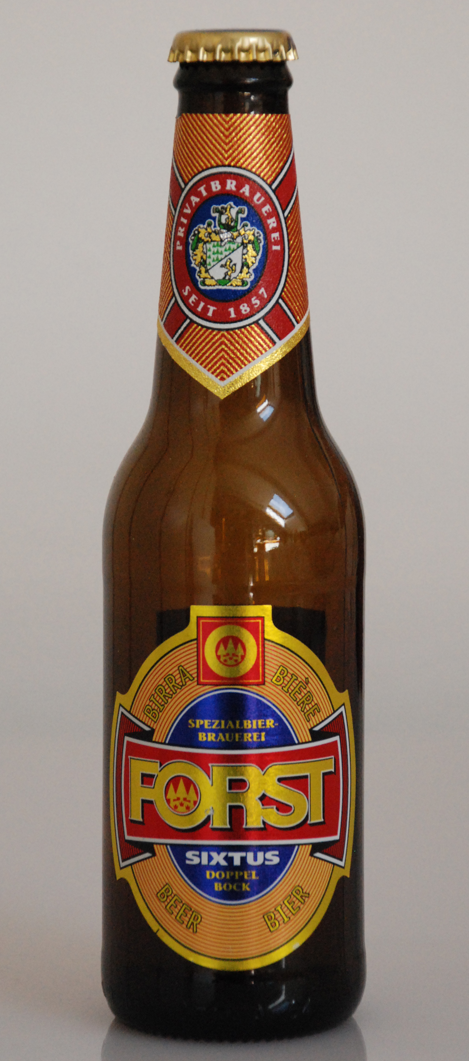 Empty bottle of Forst Sixtus beer